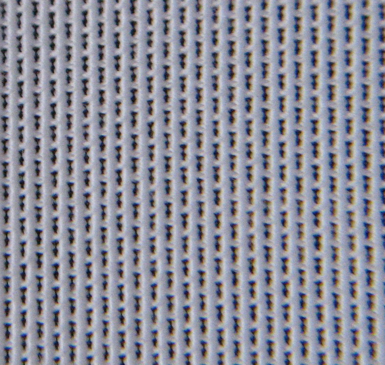 Power net fabric made on Raschel machine